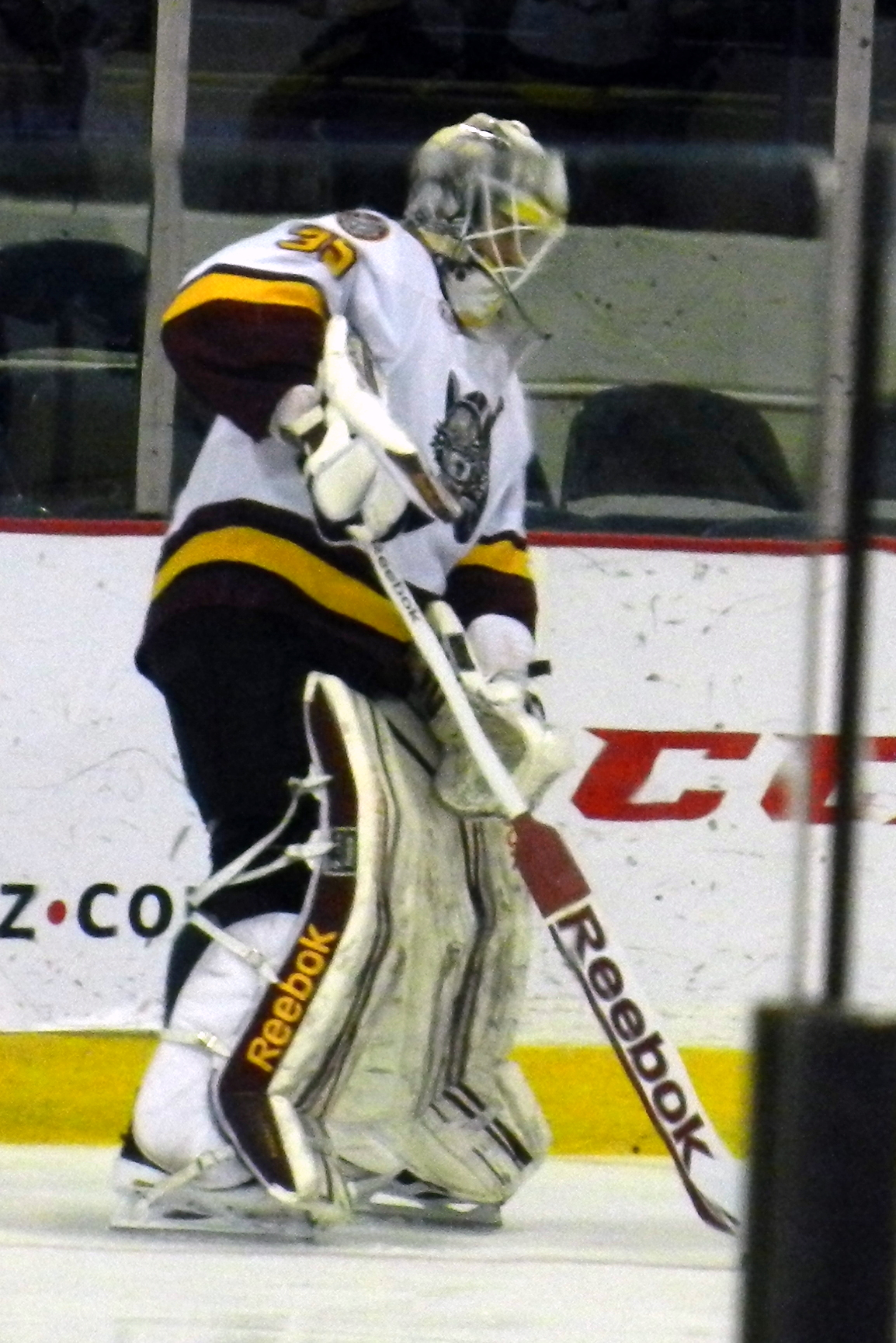 Joe Cannata playing for the American Hockey League's Chicago Wolves